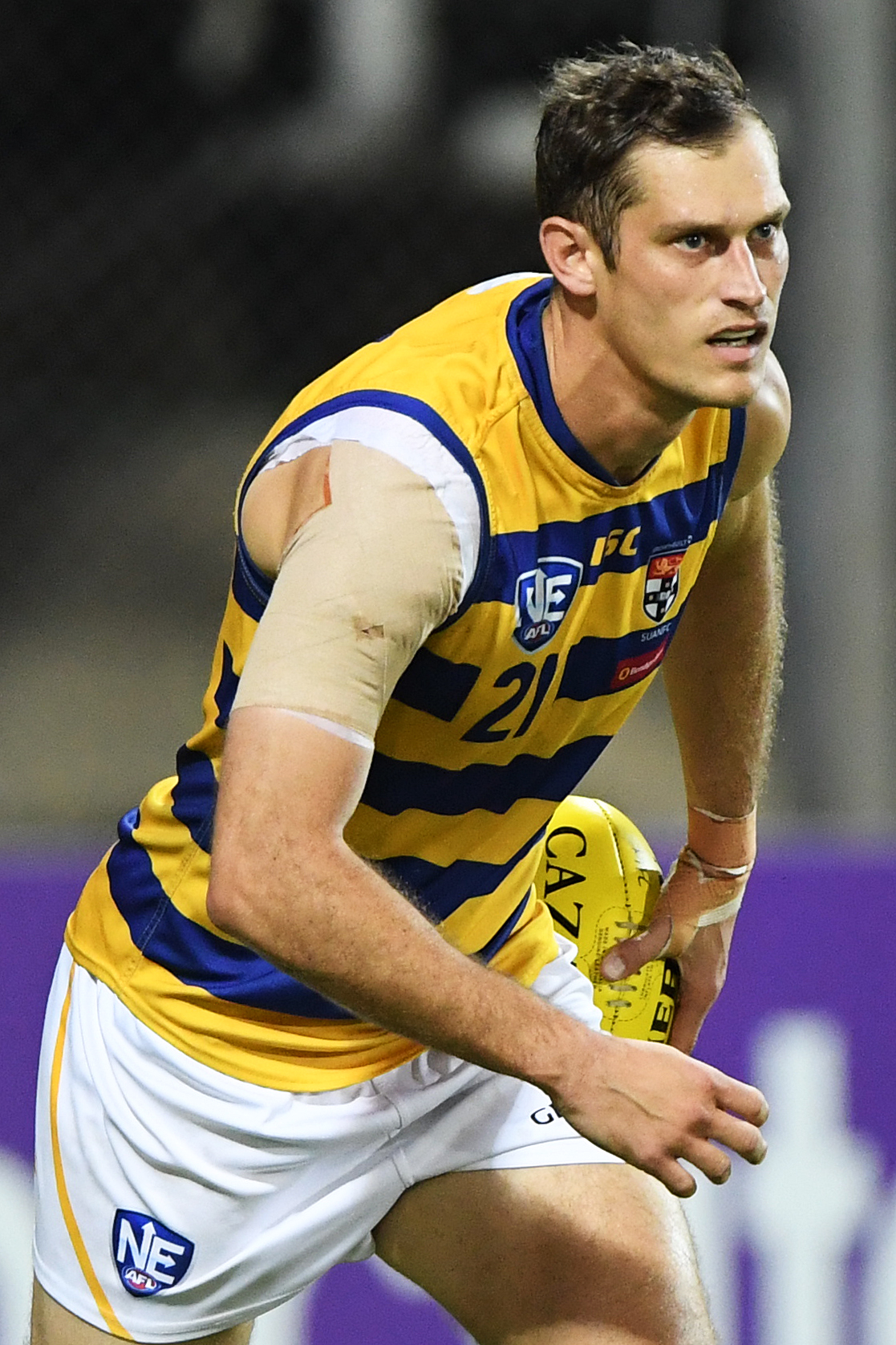 Lewis Stevenson of Sydney University during the 2019 NEAFL round 19 match between NT Thunder and Sydney University at TIO Stadium on Saturday, 10 August 2019 in Darwin, Northern Territory.